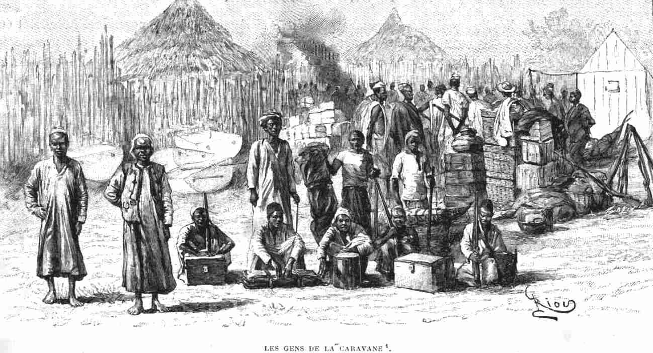 Africans of the 1891-2 Stairs Expedition. The men with rifles are most likely to be askaris, the others are porters, the man in the jacket is probably a nyampara (supervisor or chief). In the background at left are sections of two small boats which they carried for crossing rivers. Next to them, middle background are bales of cloth used for bartering for food and permission to cross chiefs' territories. Note the stack of rifles at right. The askaris were armed with 'Fusils Gras'. Other firearms may be officers' weapons being carried by porters.